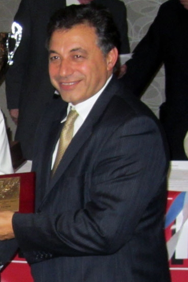 Vince Ursini at the 2011 CSL Awards ceremony on November 14, 2011